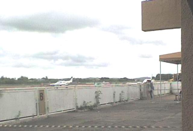 Track of landing of Governador Valadares airport, Minas Gerais, Brazil